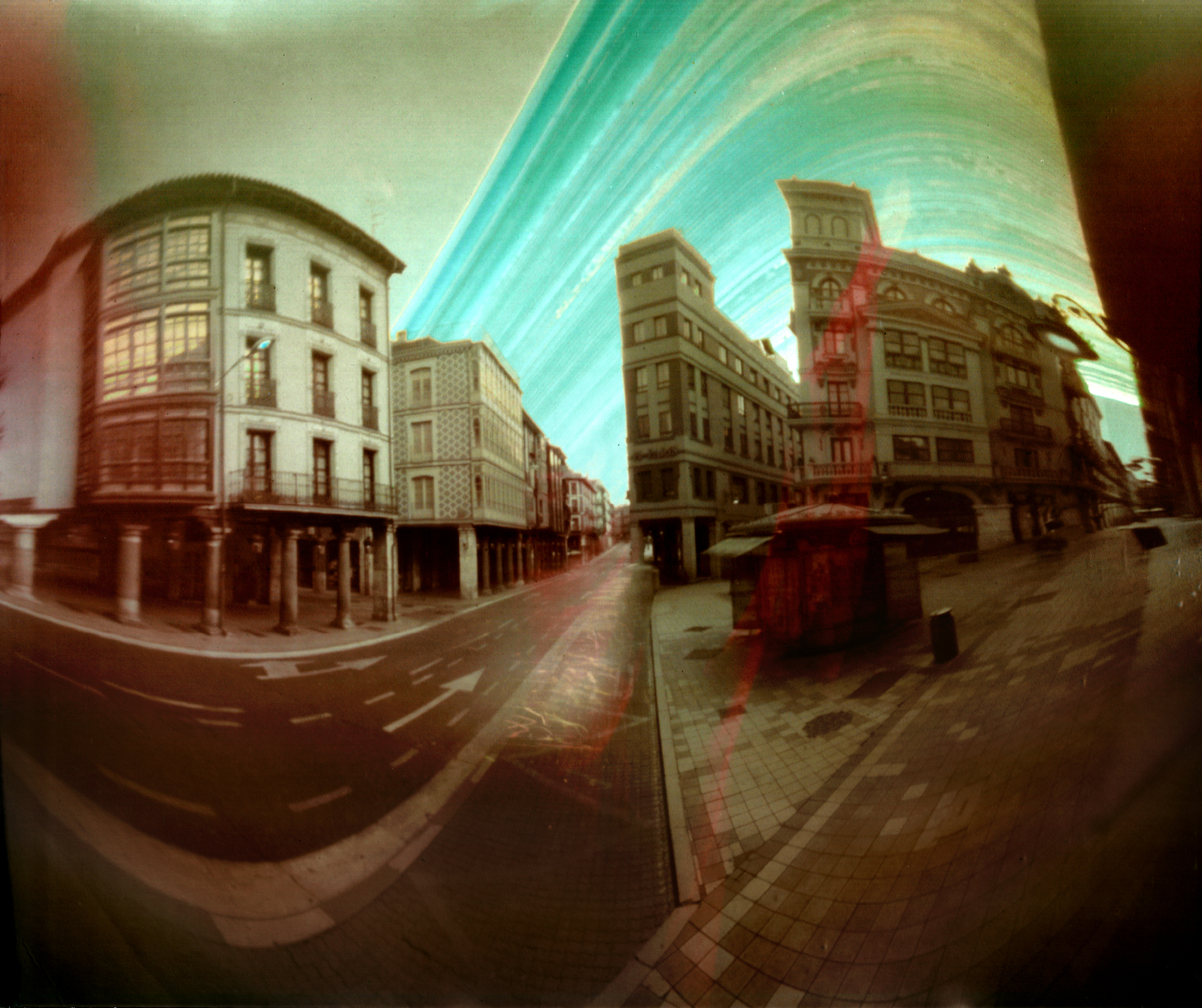 Solarigraph taken in Valladolid, Spain